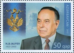 Heydar Aliyev - holder of an order of St. Andrew the Apostle the First-Called. Joint issue of Azerbaijan Republic and Russian Federation.